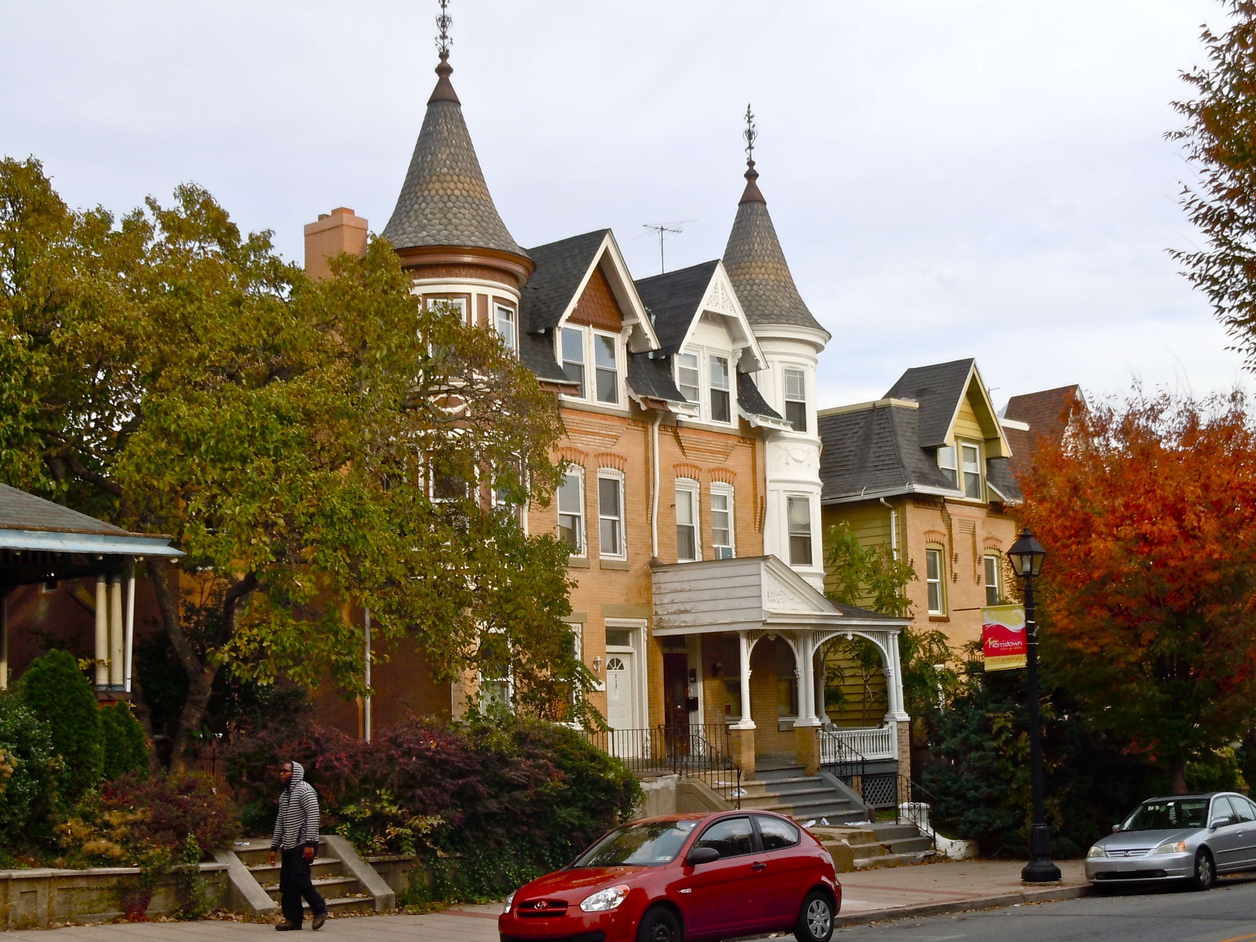 Houses on Marshall Street in the West Norristown Historic District on the NRHP since November 23, 1984. The district is roughly bounded by Stoney Creek, Selma and Elm Streets in Norristown, Montgomery County, Pennsylvania.